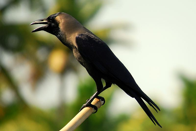 House Crow (Corvus splendens)